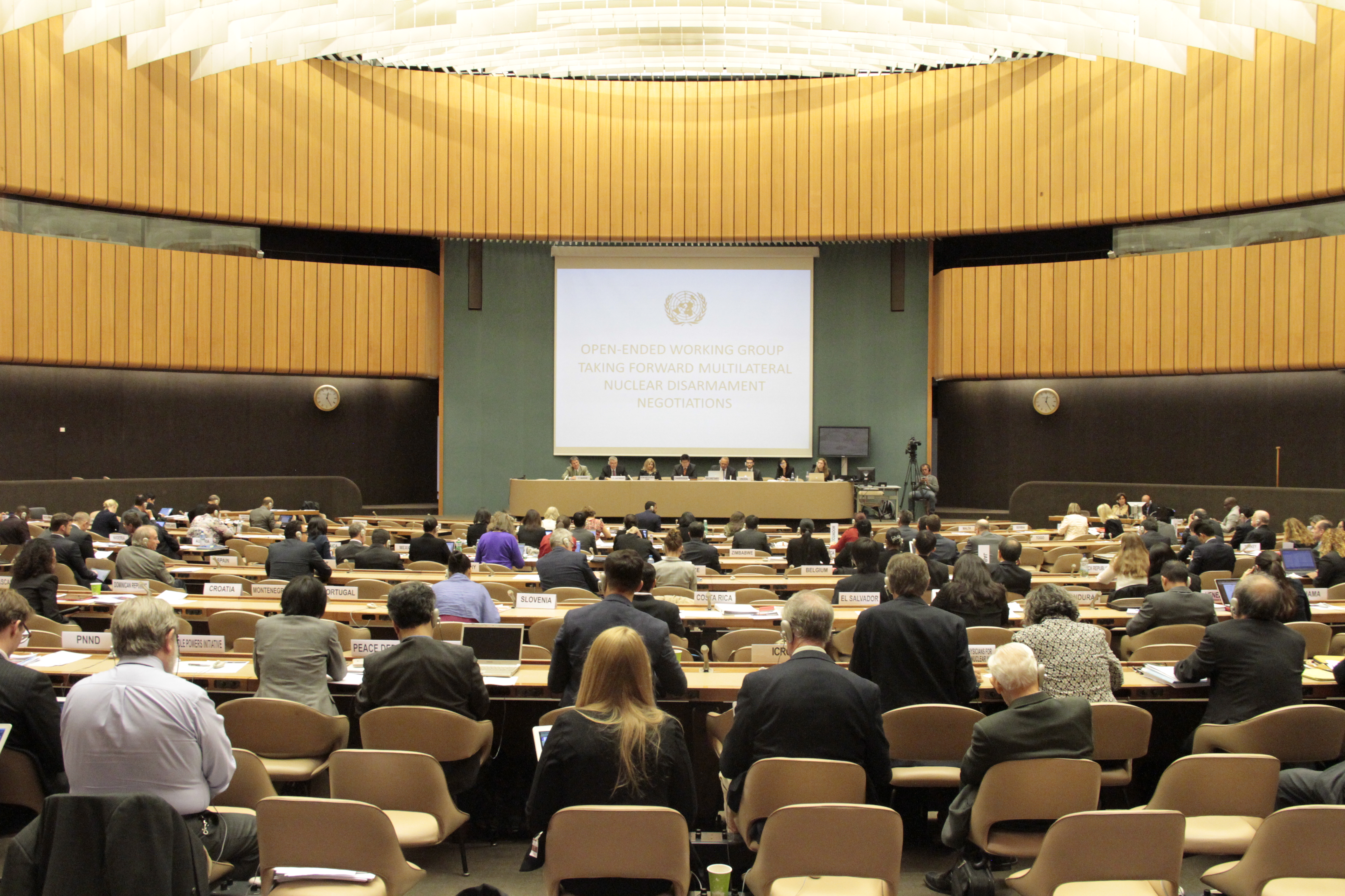 At the United Nations office in Geneva, governments discuss legal measures for attaining and maintaining a nuclear-weapon-free world, in May 2016.